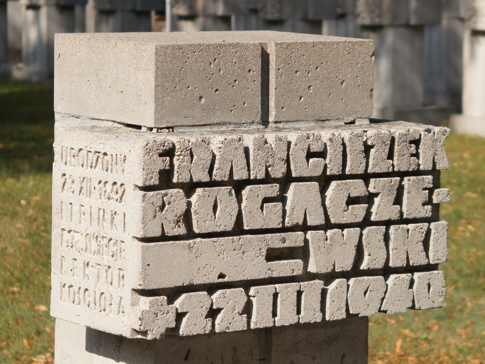 Franciszek Rogaczewski, Zaspa Cemetery in Gdańsk